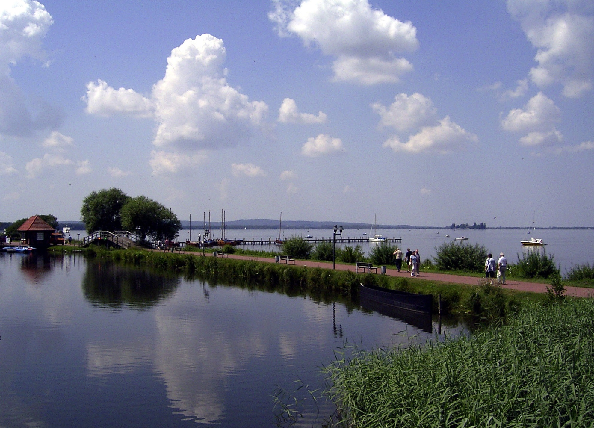 The beach jetty at Steinhude on Lake Steinhude, Lower Saxony Germany